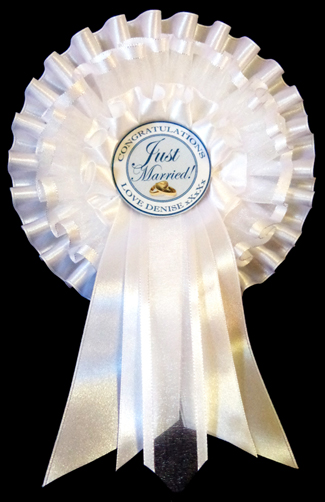 According to the author this wedding rosette is 3 Tiers of luxury white ribbons created with extra wide (38mm) Satin Ribbons and Sheer Satin Edged Ribbons pleated for the tiers and left flat for the tails. The centre disk is made of 1.5cm thick card x 50mm Diameter and can be printed in colour or metallic foils with a personalised message or picture to the recipient. The style of this would depend on who the rosettes gift is for: the bride and groom or for the guests of the bride and groom. The centre disk is finished with a laminated cover to protect the print from fading and to give a shiny finish. The secret to a quality wedding rosette is the craftsmanship of the artisan, if they are glue experts or not and which level of quality ribbons they use, as there are many, some with more shine than others. Date of photo September 12th 2012 in the workshop of Rosettes Spain ~ Escarapelas España, Alhaurin el Grande, Malaga, Spain. Photo taken with a Sony Cyber-Shot DSC H90 digital camera. Photo by Rosettes Spain ~ Escarapelas España by the user:RosettesSpain in Wikipedia, Facebook, Twitter, Youtube and Goggle+